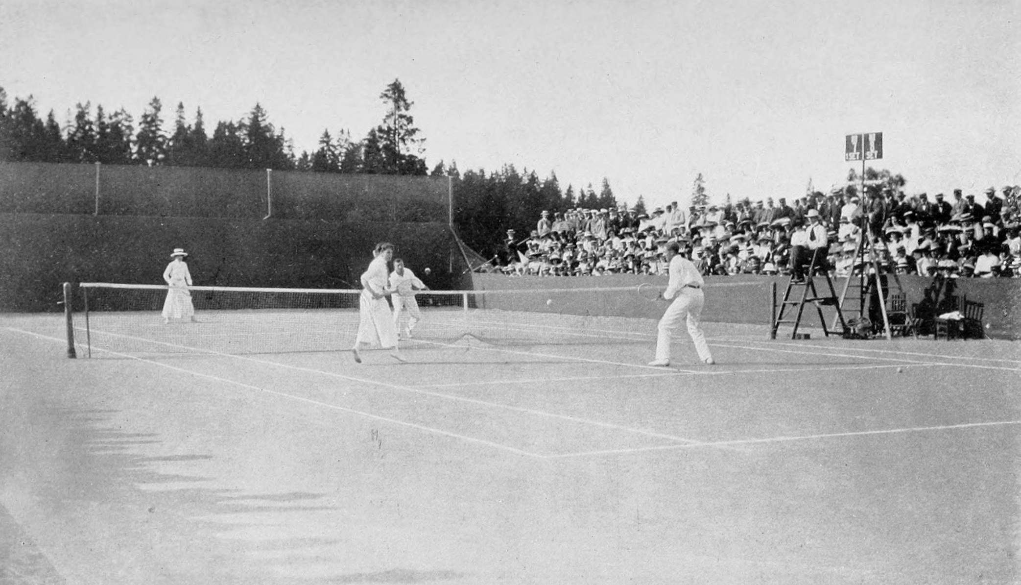 Final in mixed doubles at the 1912 summer olympics. From left: Sigrid Fick and Gunnar Setterwall (Sweden) (this side of net) vs. Dora Köring and Heinrich Schomburgk (Germany)